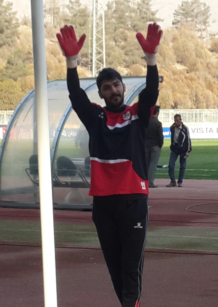 Davoud Noshi Sofiani, Iranian footballer